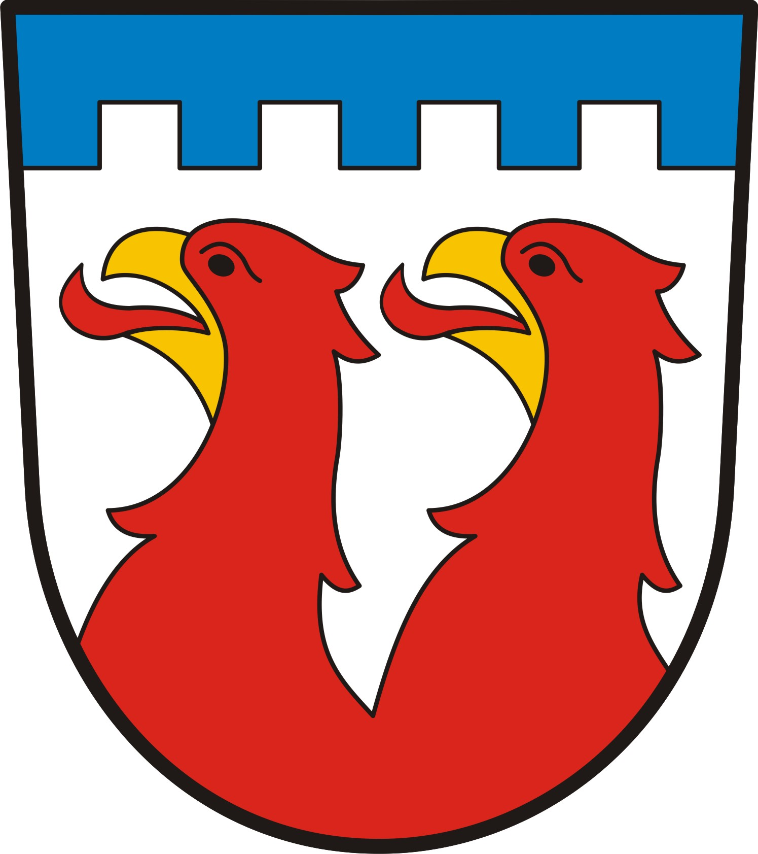 Coat of arms of the village of Jenštejn, Czechia. Proposed in 2011 by Jan Tejkal, approved by the Chamber of Deputies of the Parliament of the Czech Republic on November 9, 2011. The main theme is the pair of red vulture heads in silver field, taken from the coat of arms of the lords of Jenštejn, a branch of the family of the lords of Vlašim.